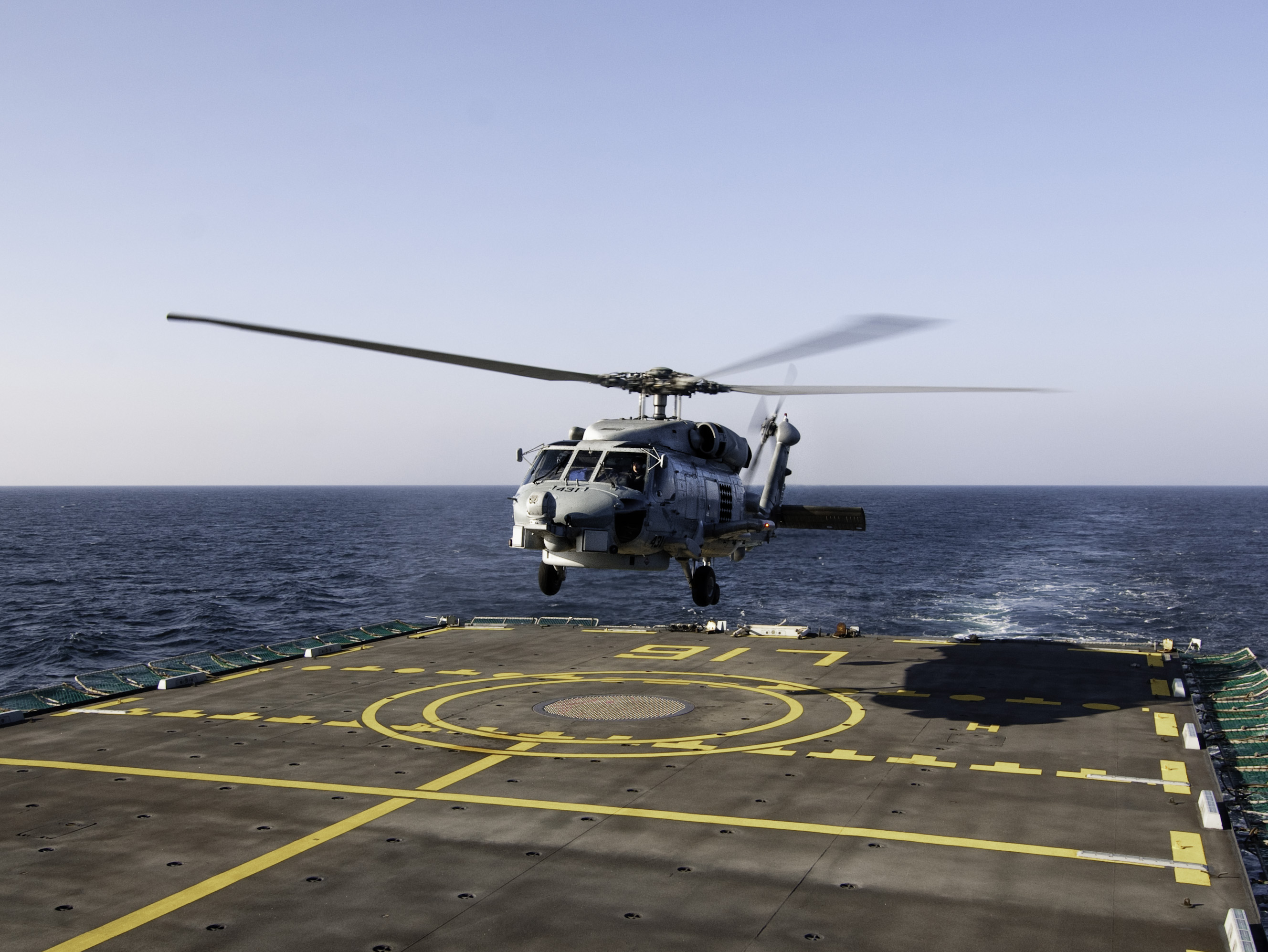 An US Navy Seahawk lands on HDMS Absalon (L16).